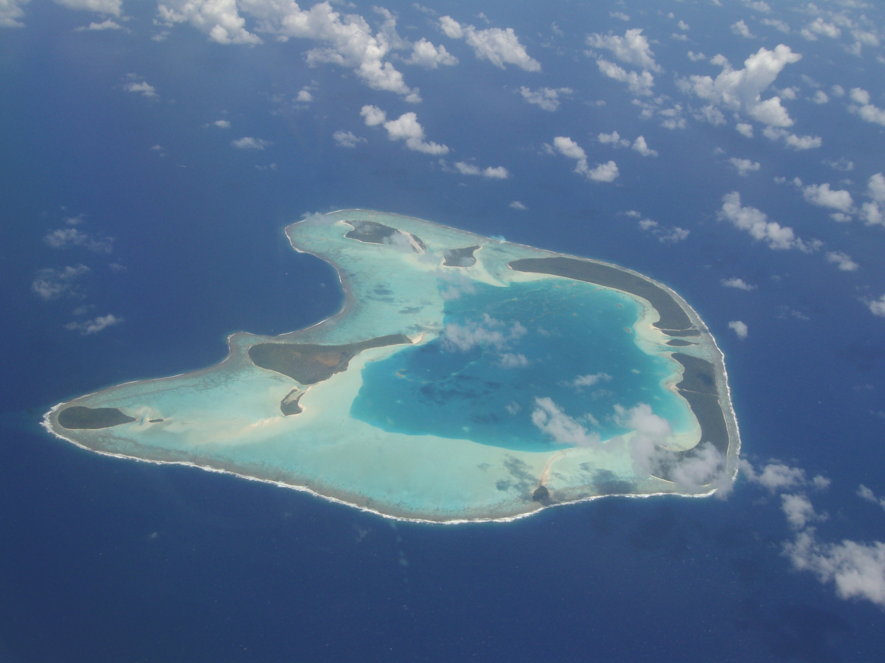 Tetiaro atoll from sky